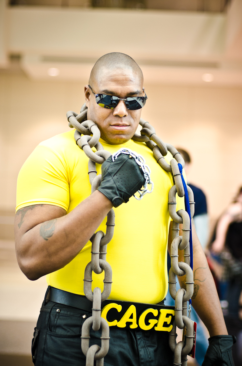 Michael "Knightmage" Wilson cosplaying as Luke Cage at the 2013 Chicago Comic & Entertainment Expo (C2E2).